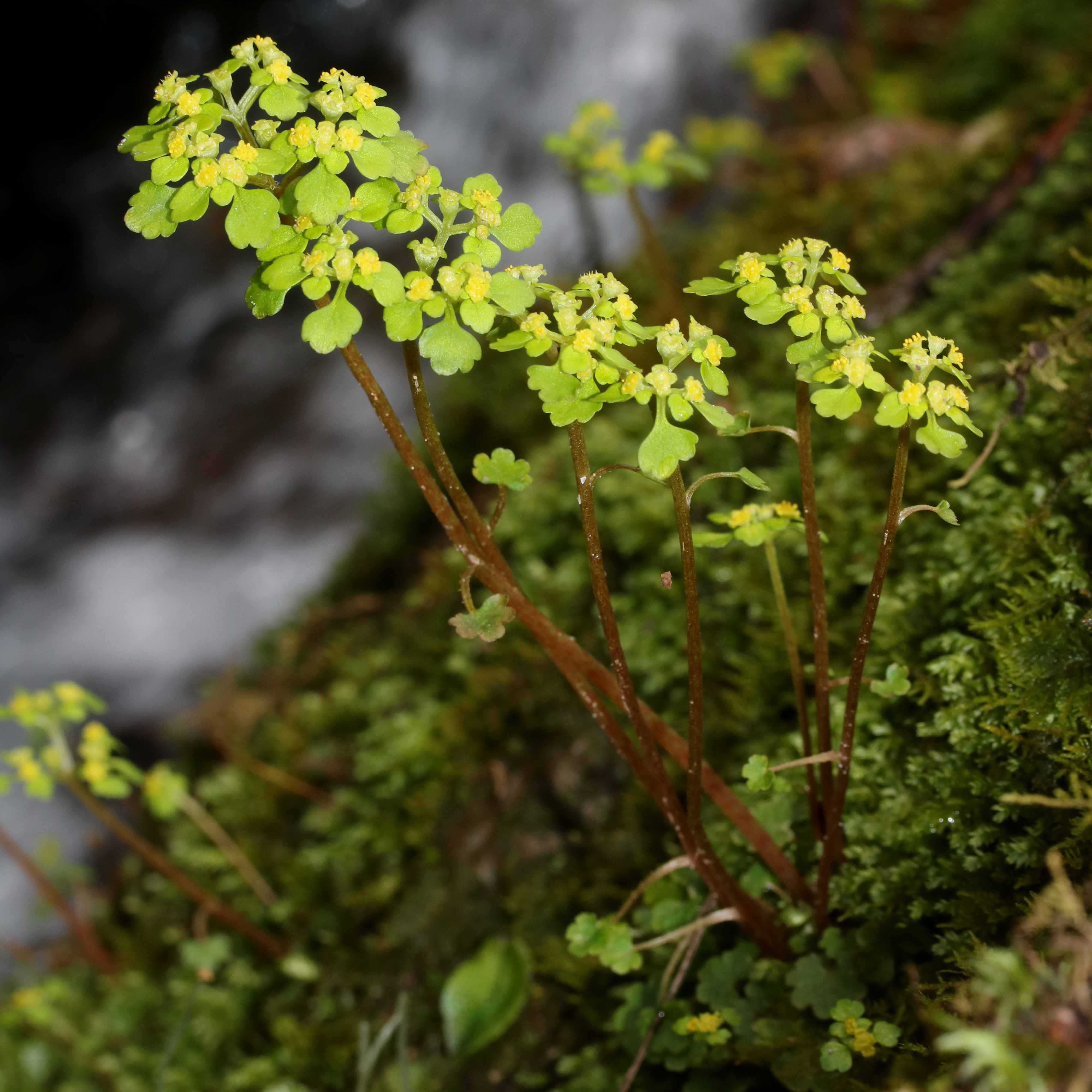 Chrysosplenium flagelliferum in Mount Mikuni, Suzuka Mountains, Ogaki, Gifu Prefecture, Japan.